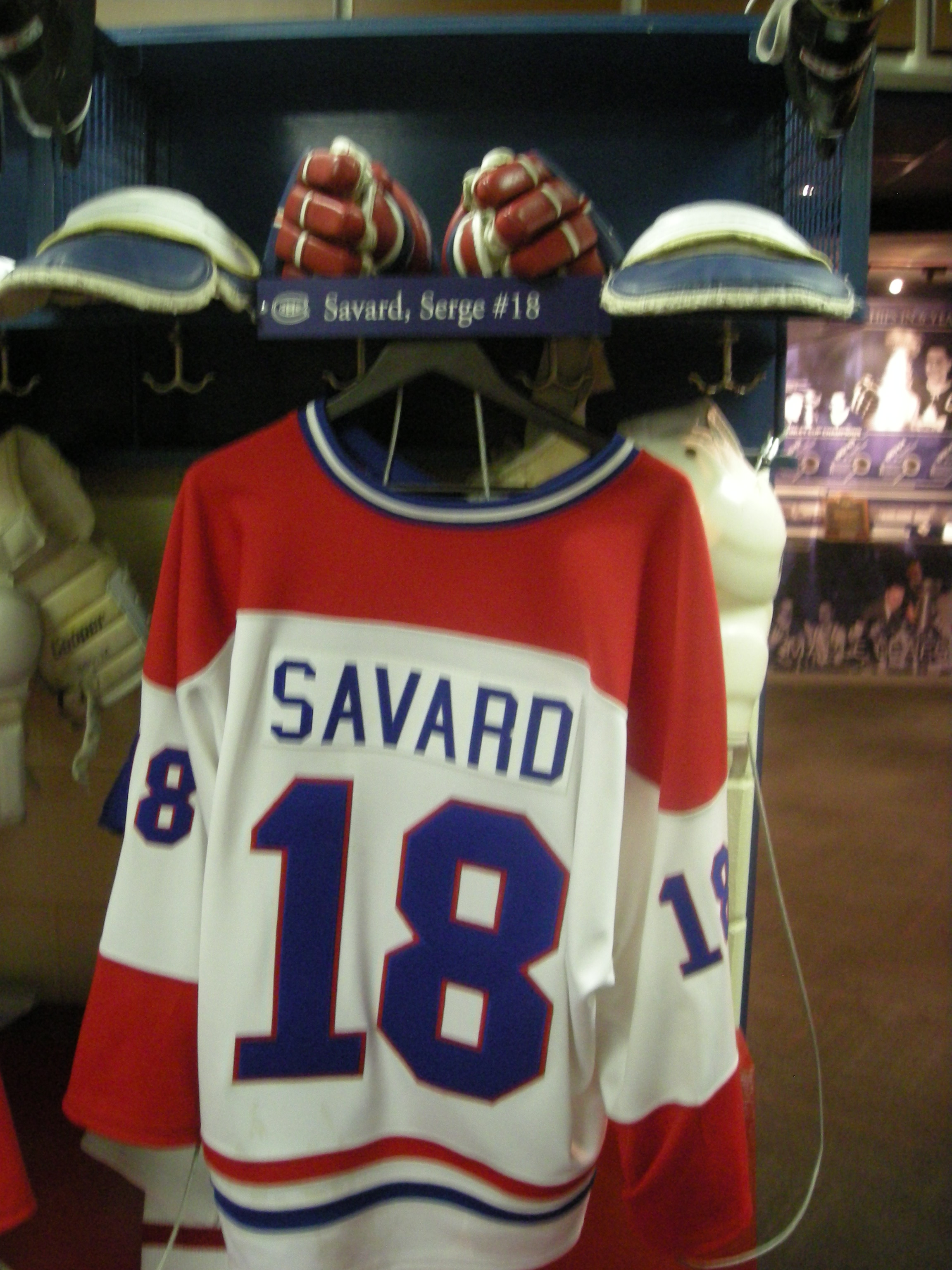 Serge Savard's jersey in the replica of the Montreal Canadiens dressing room at the Hockey Hall of Fame in Toronto, Ontario (Canada).